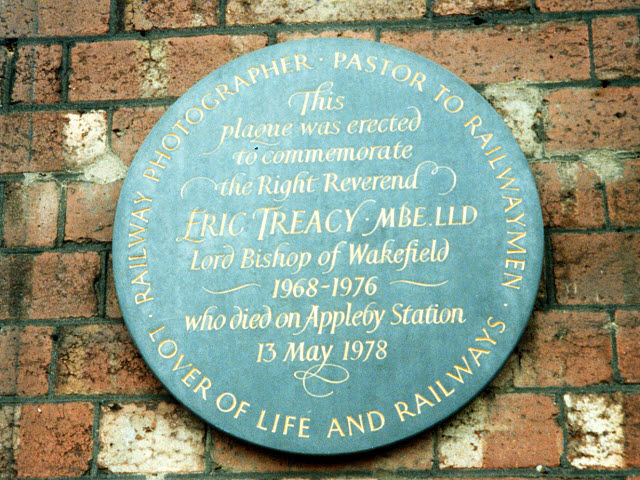 Plaque to Bishop Eric Treacy on Appleby station A tribute to the 'railway Bishop' who died here. I expect he would have been a Geograph contributor had it been around in his day. NB his name was pronounced 'Tracy' rather than 'Treecy'.